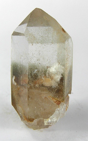 Quartz Locality: Mount Sinai, Sinai Peninsula, Egypt (Locality at ) Size: 4.4 x 1.9 x 1.5 cm. Now here is something rare on the market - a quartz crystal (with inclusions) from Mt. Sinai in Egypt, known much better for its prominent place in Old Testament history than for mineral specimens. The inclusions are listed as clay, but they appear a bit more like chlorite.